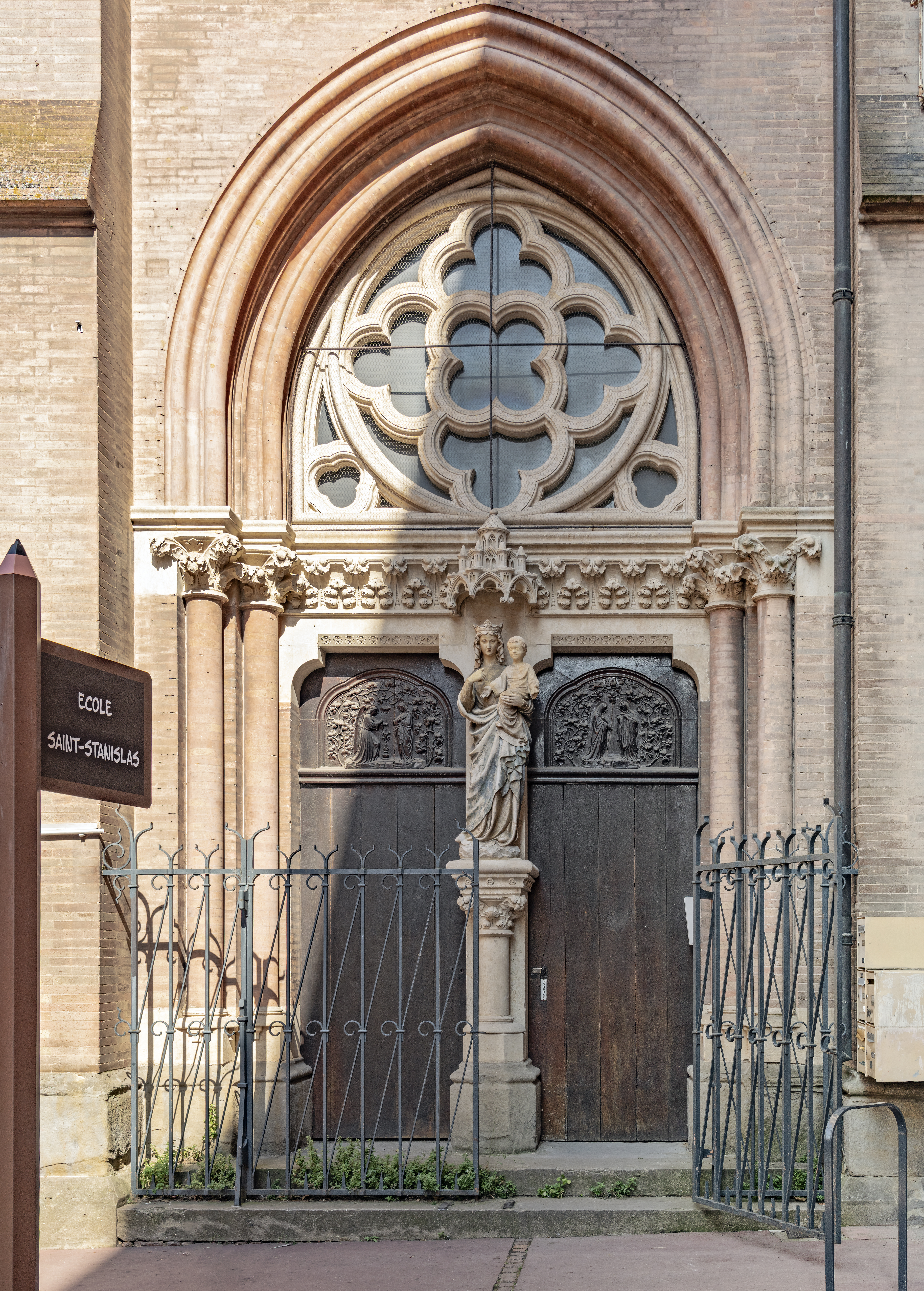 Rue des Fleurs in Toulouse, N ° 22 bis entrance to the church of Gésu